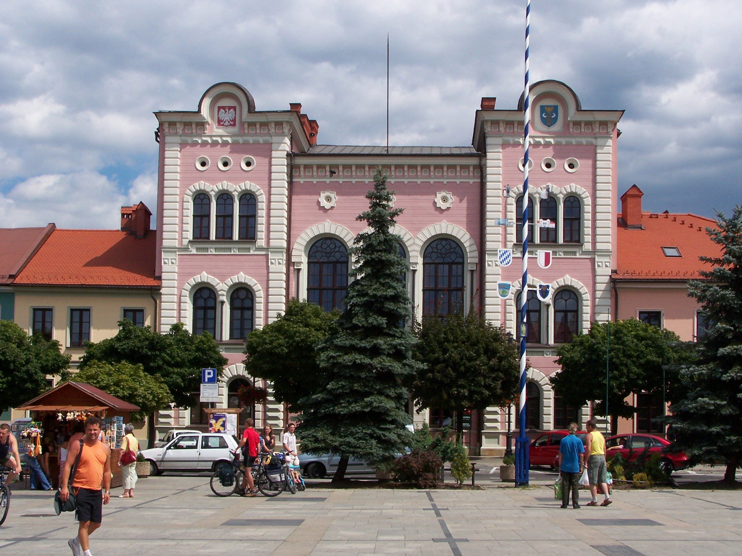 City hall in Żywiec (Poland).